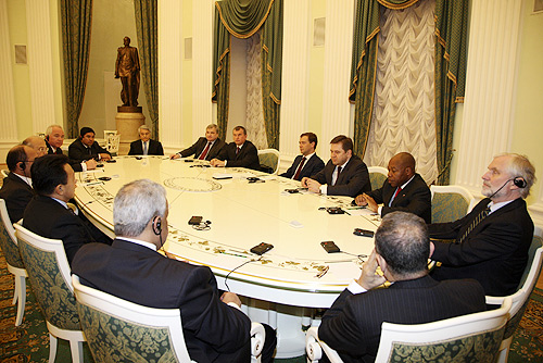 Dmitry Medvedev met with the participants in the seventh ministerial meeting of the Gas Exporting Countries' Forum (GECF) in Moscow. The countries participating in the GECF are Algeria, Bolivia, Brunei, Venezuela, Egypt, Indonesia, Iran, Qatar, Libya, Malaysia, Nigeria, United Arab Emirates, Russia, Trinidad and Tobago, Turkmenistan, Equatorial Guinea, Norway and Kazakhstan.